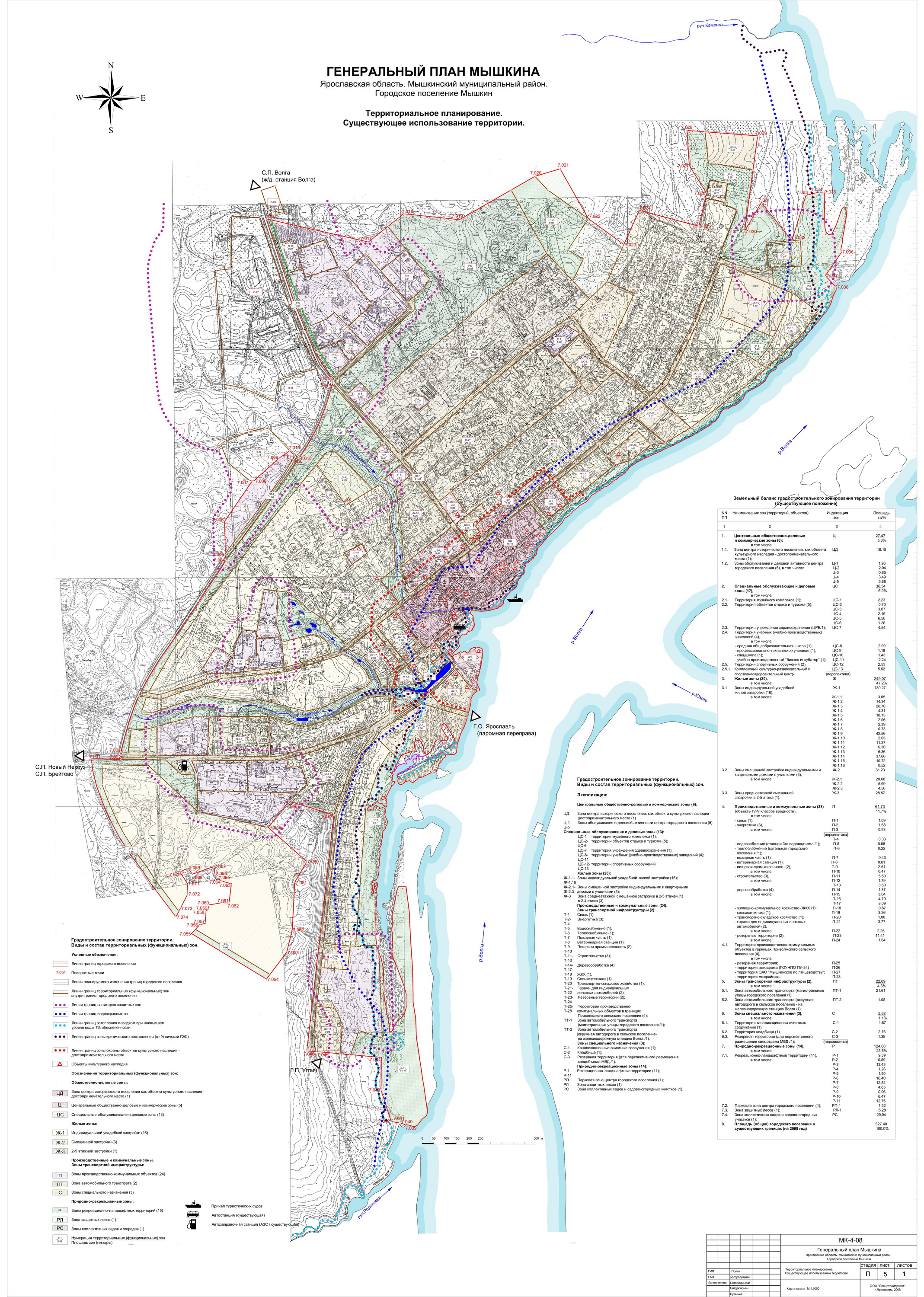 General plan of Myshkin 2008. Existing use of the territory.